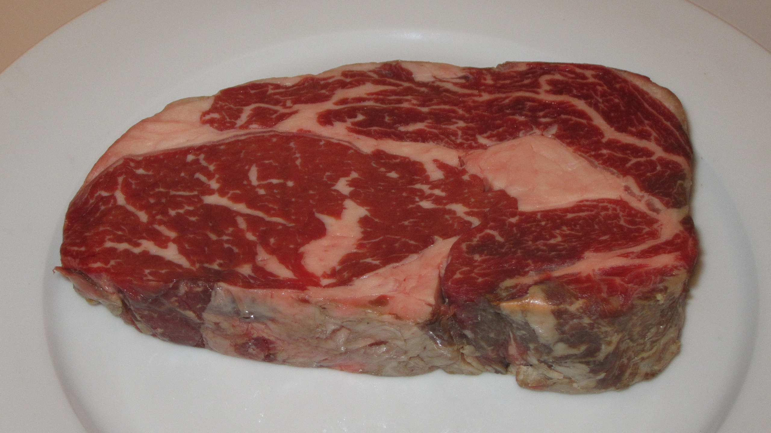 Entrecote from organic Angus beef. Note the marbled texture, meat of lesser quality is lean with almost no fat.